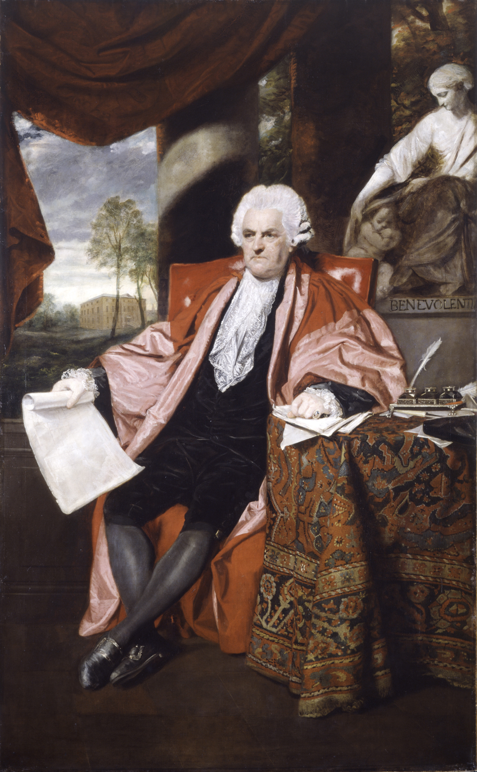 Portrait of John Ash (1723-1798)